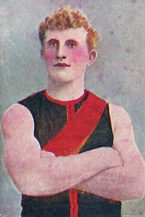 Cigarette card of Mick Madden from the 1905 Wills Past and Present Champions series.